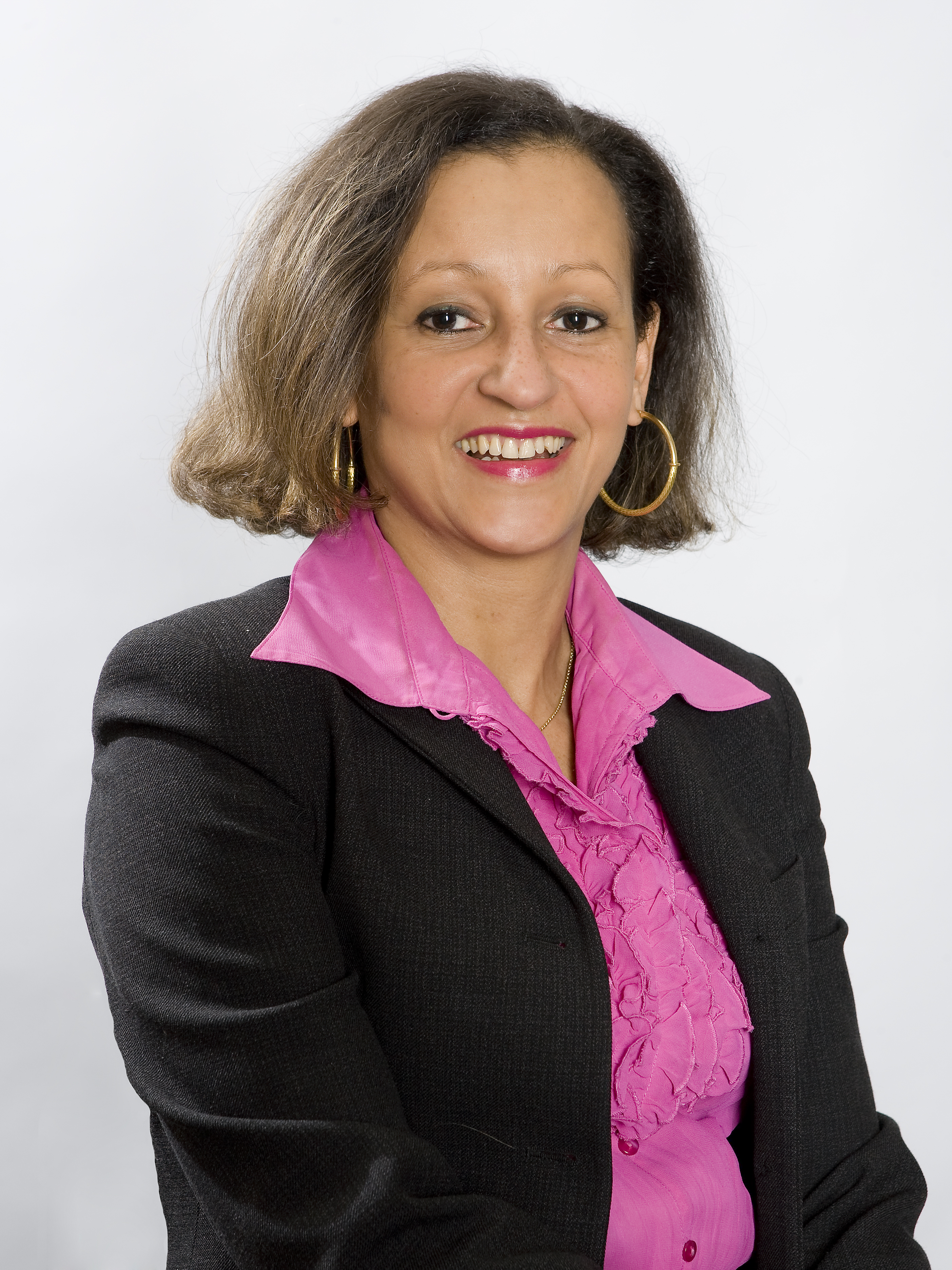 Portrait de Marie-Luce Penchard